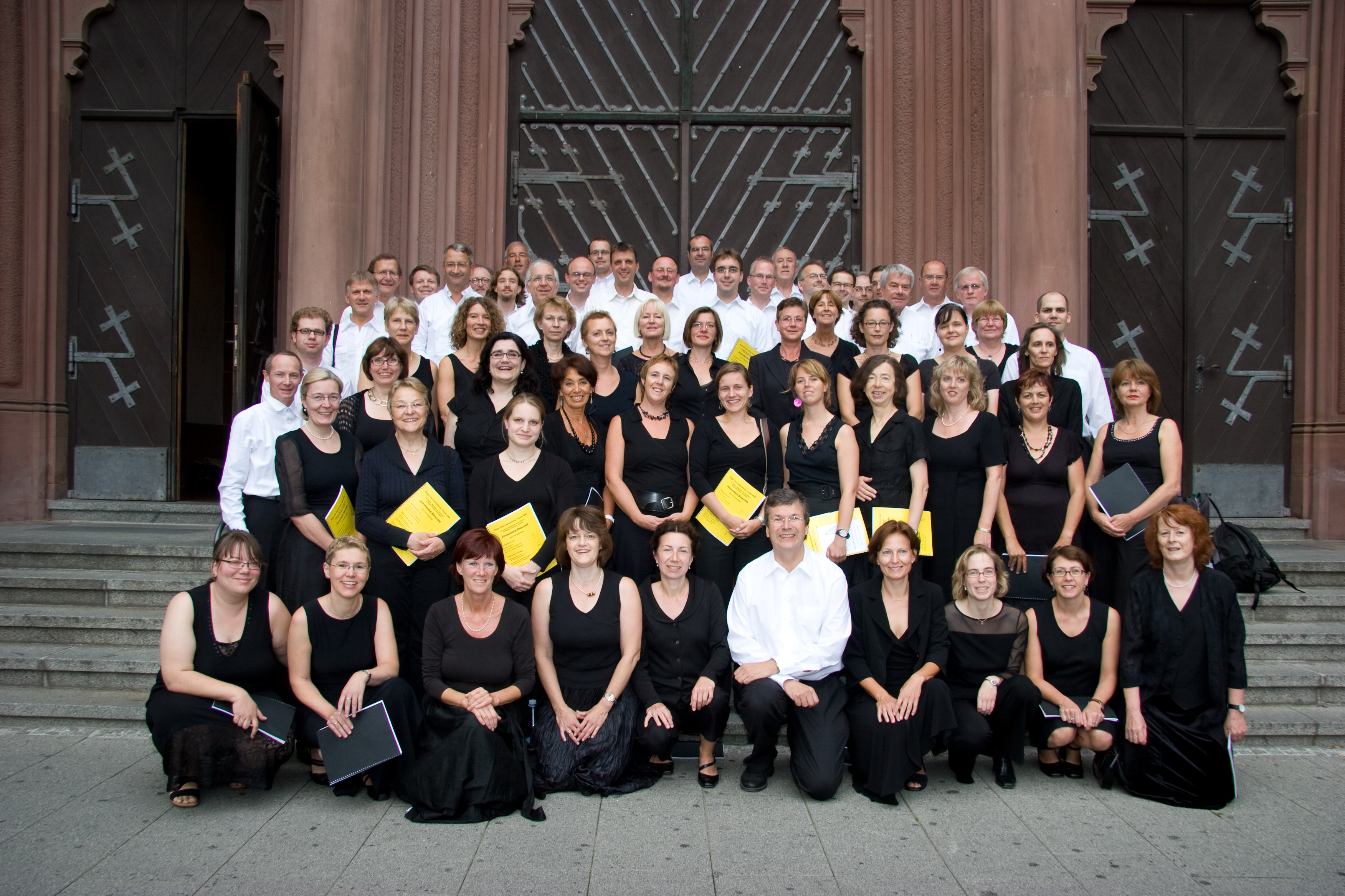 Reger-Chor, singers from the German Rhein-Main area and around Bruges, Belgium, in front of St. Bonifatius, Wiesbaden, conductor Gabriel Dessauer in the front